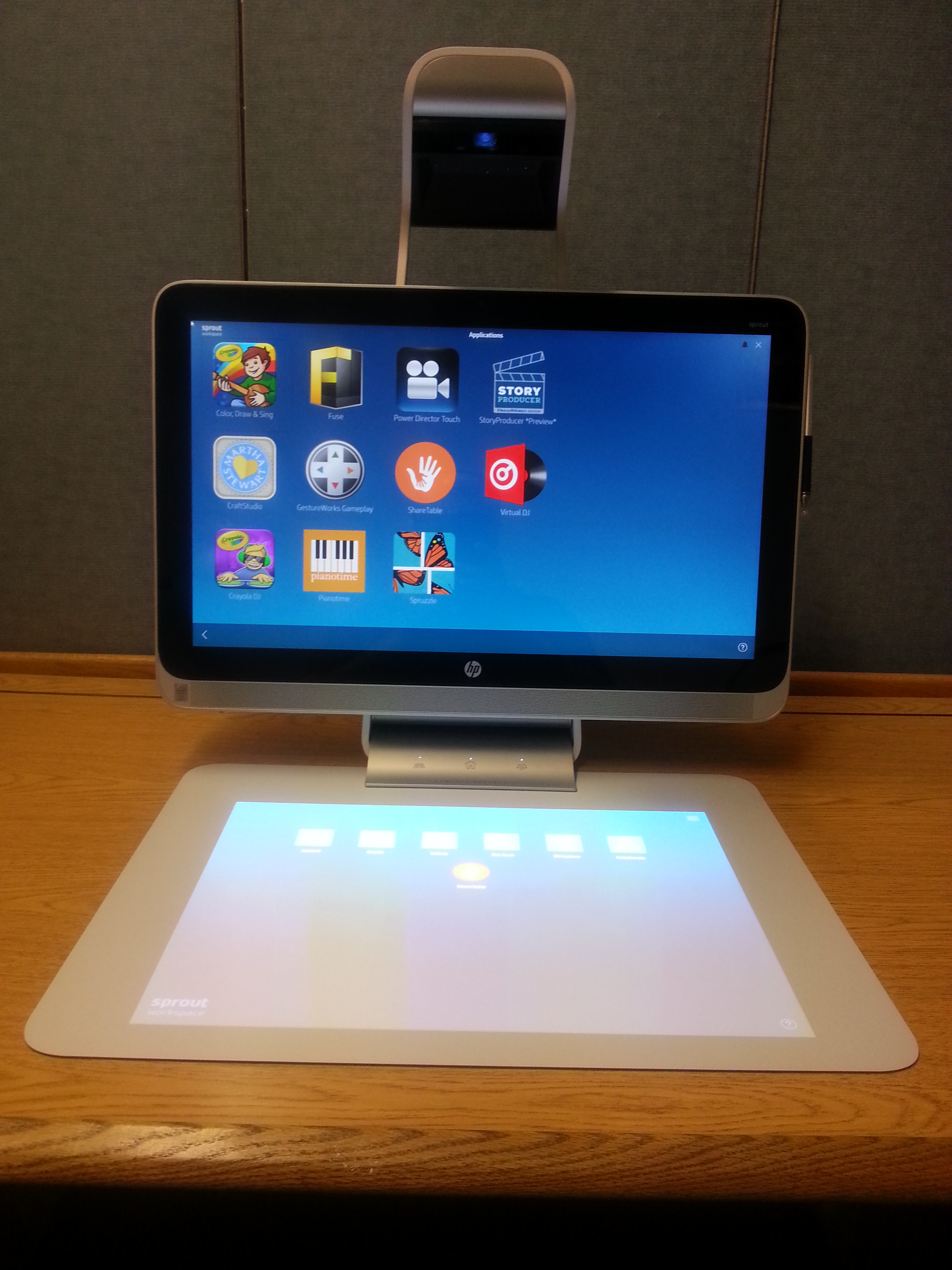 First pro-cam system introduced by HP.